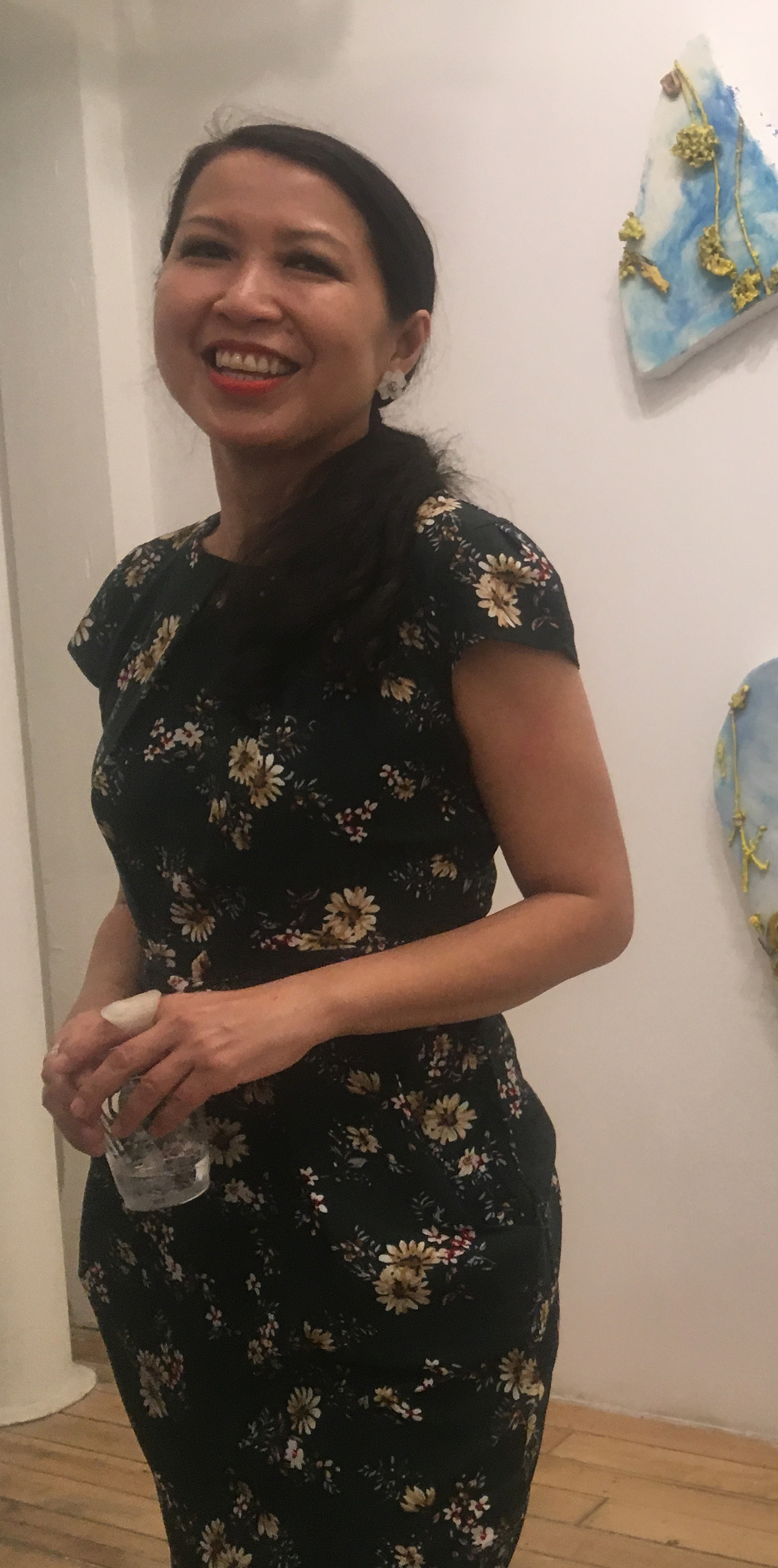 Artist Cecile Chong at The Painting Space in March 2018